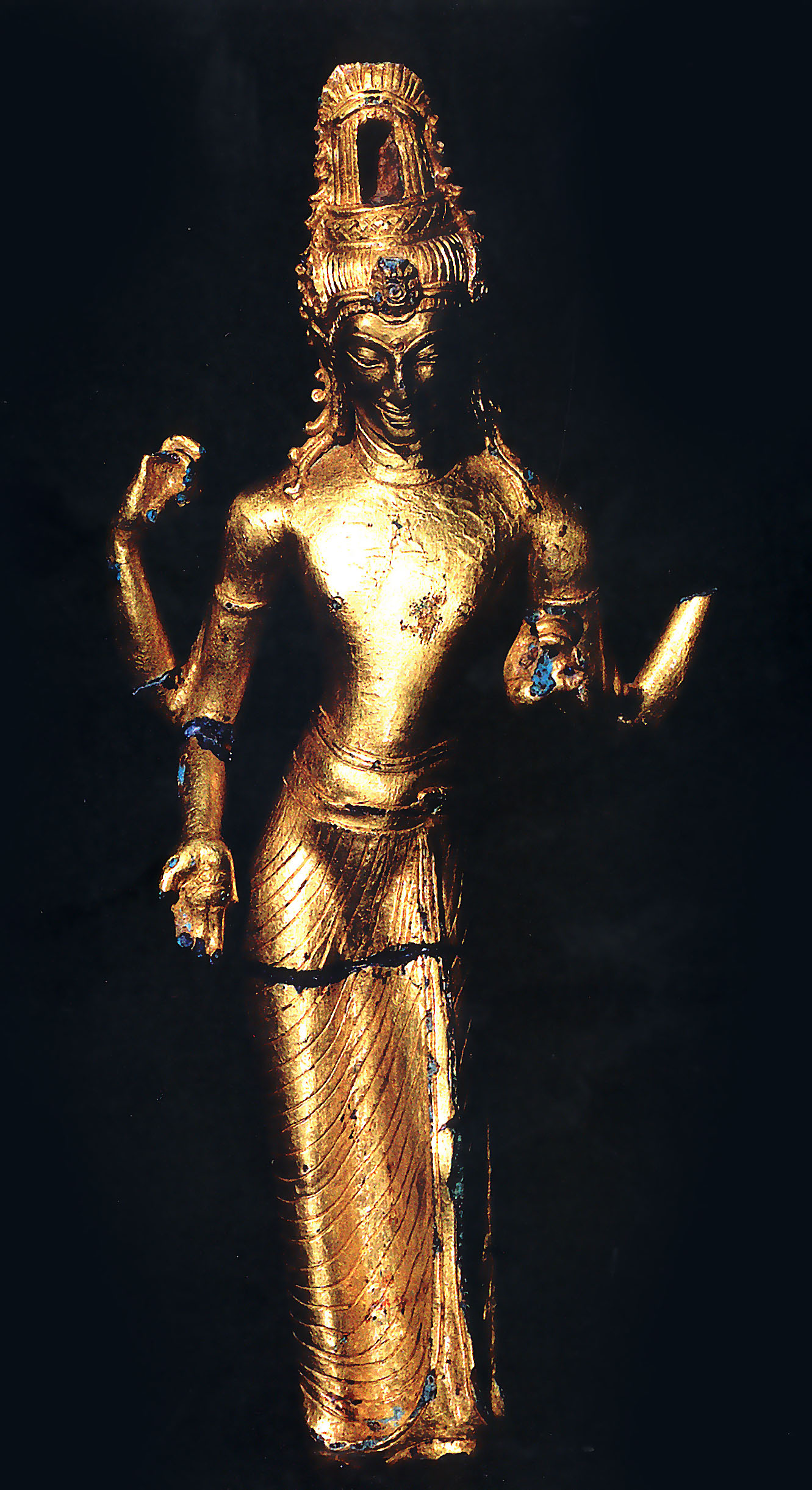 The graceful gold coated bronze statue of four handed Avalokiteçvara in Malayu-Srivijayan style c. 11th century, discovered at Rataukapastuo, Muarabulian, Jambi, Indonesia. The golden statue probably taken from elsewhere and not originated from Rataukapastuo, since there is no sign of archaeological remnant surround it.